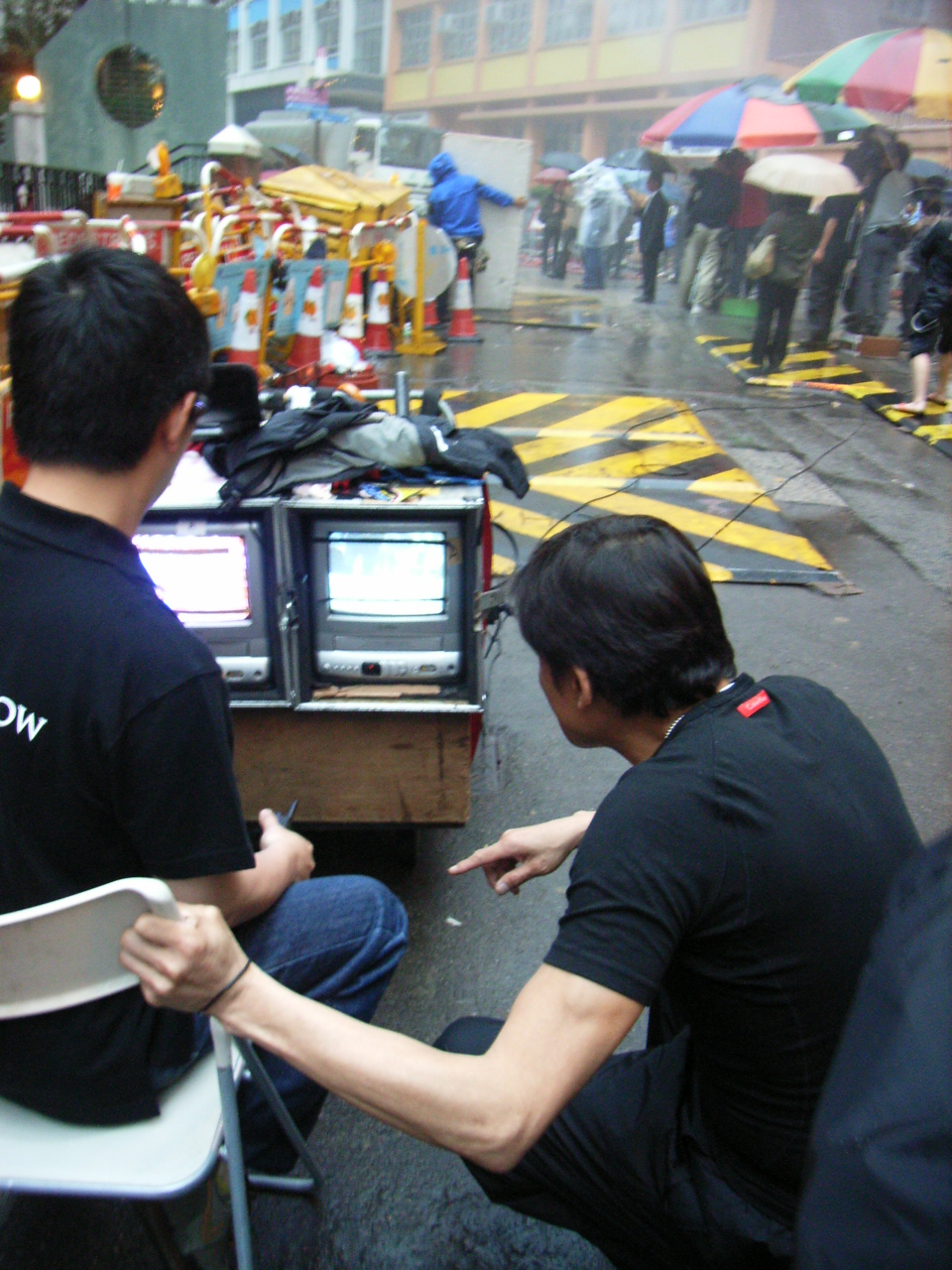 香港電影人在zh:樓梯街正進行拍攝電影 HK filming in progress.